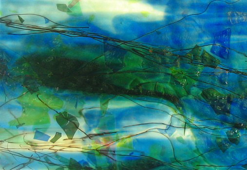 A sample of fracture streamer glass.